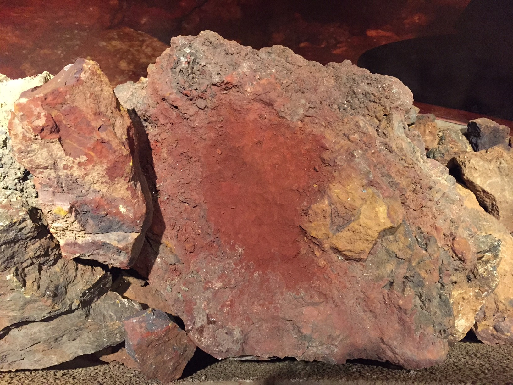 Iron Ore Block from Jordan.